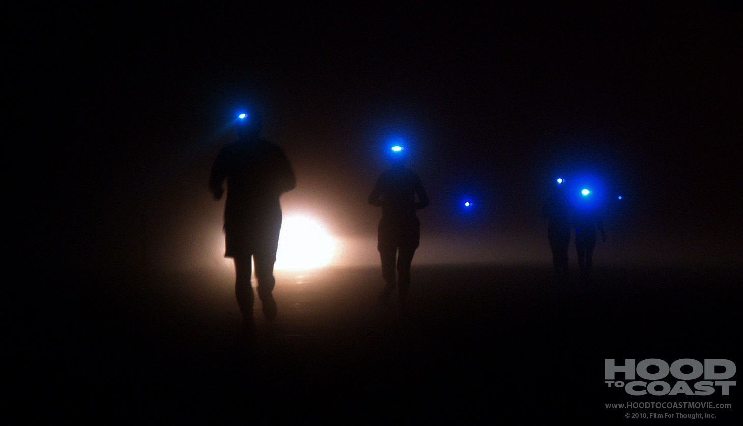 HTC night running